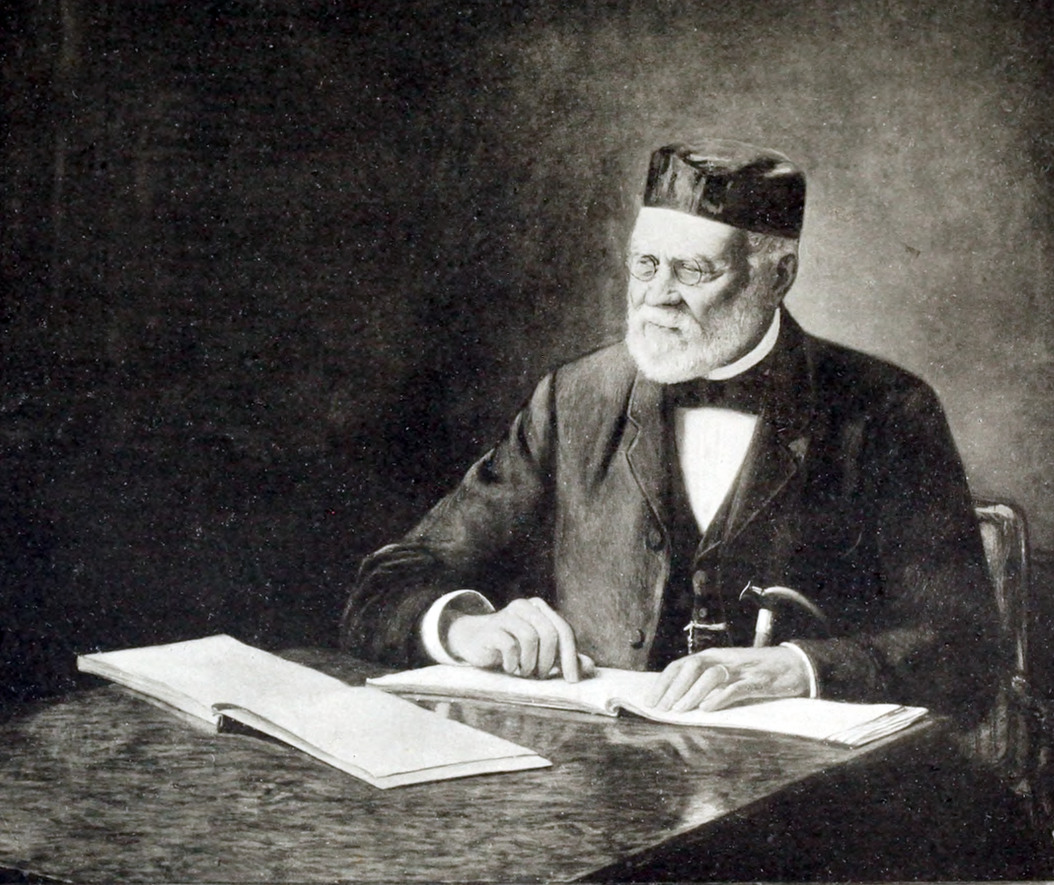 Portrait of Nils Peter Hamberg